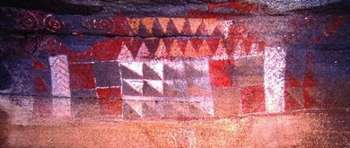 Cueva Pintada de Gáldar